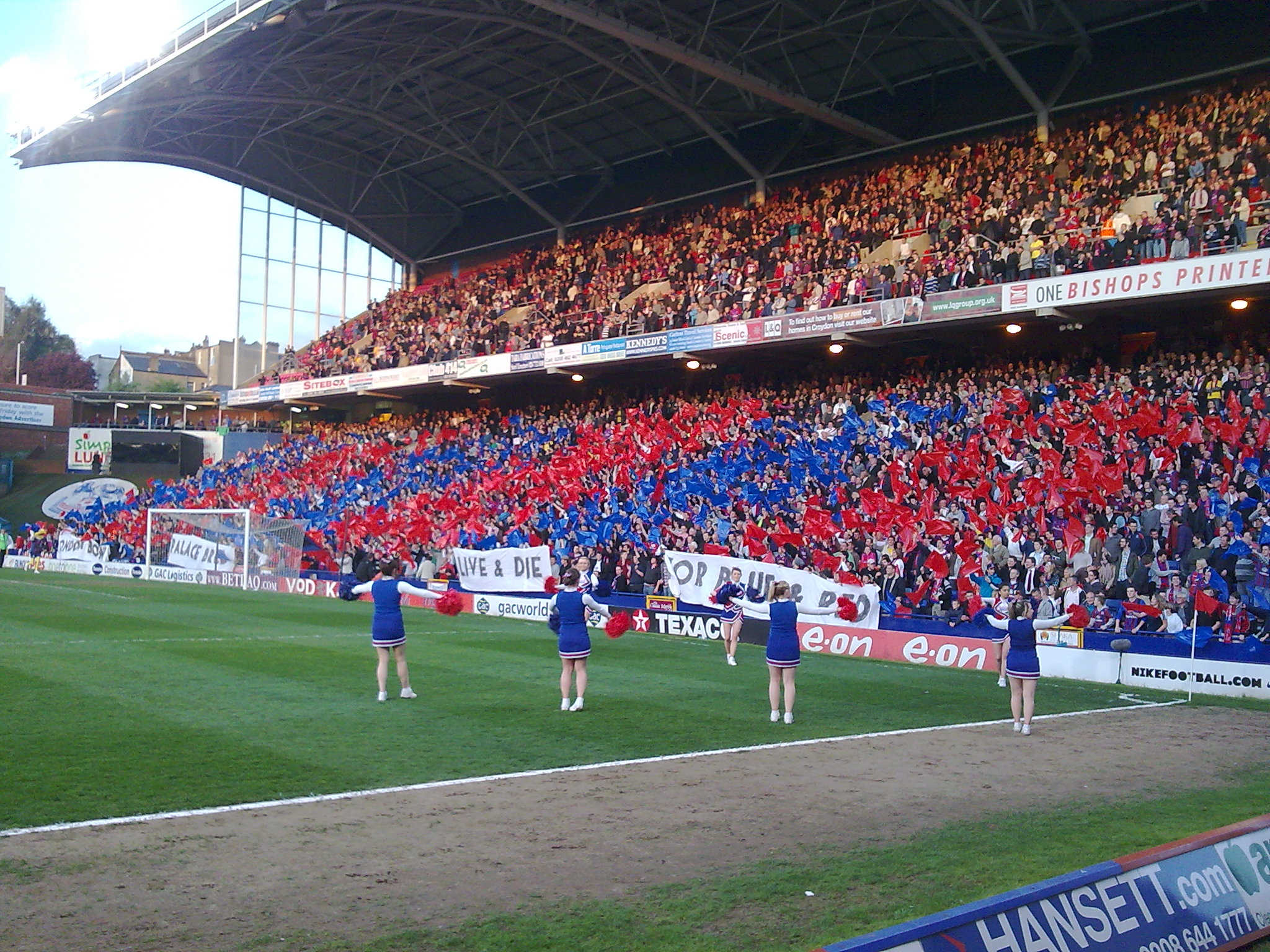 A flag display at Crystal Palace F.C.'s Selhurst Park Stadium